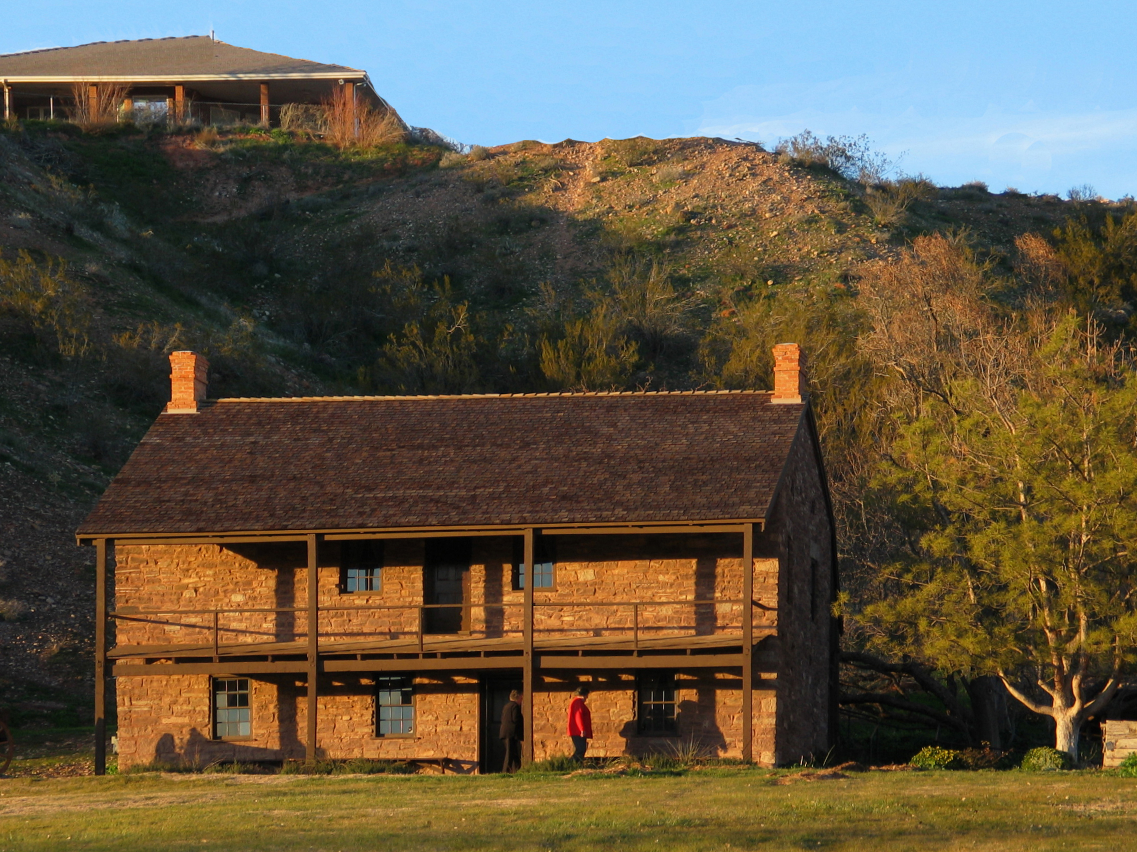 Jacob Hamblin House, 3400 Hamblin Dr. Santa Clara